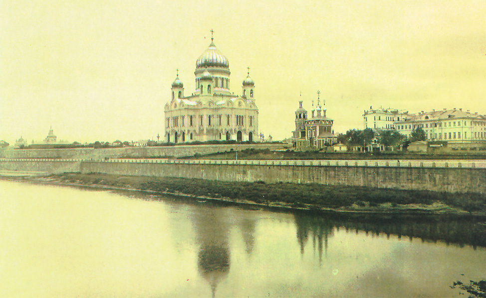 Taken from [1] An old photo of the cathedral destroyed in 1931